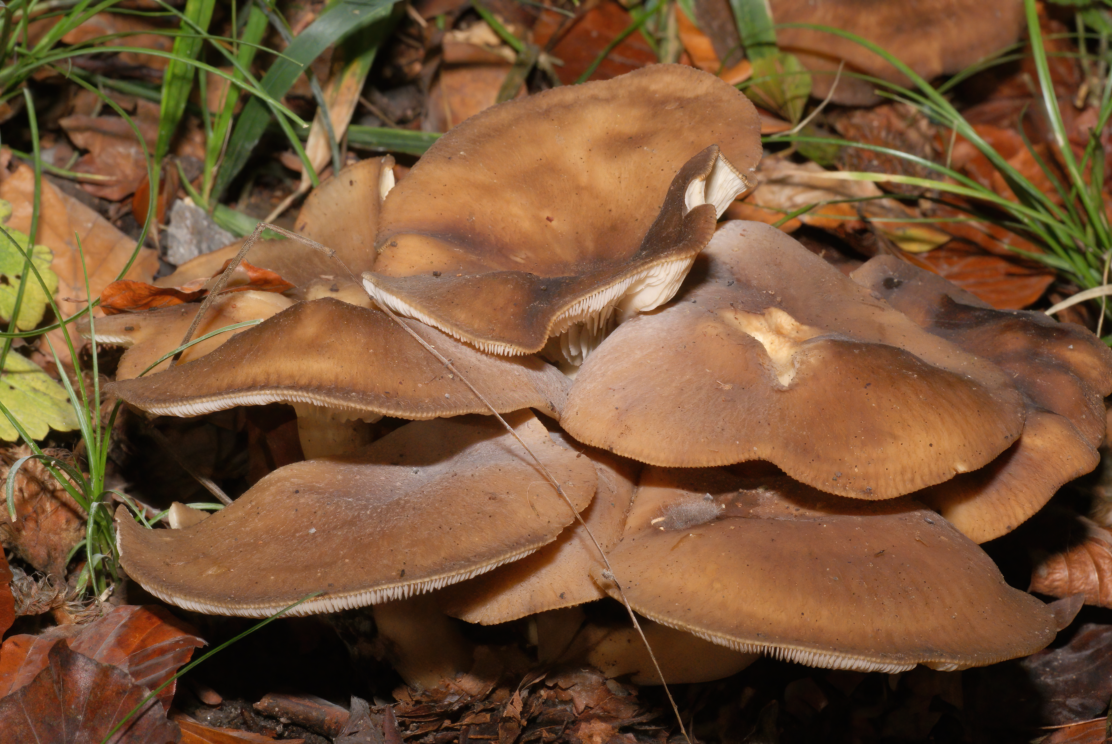 Lyophyllum decastes